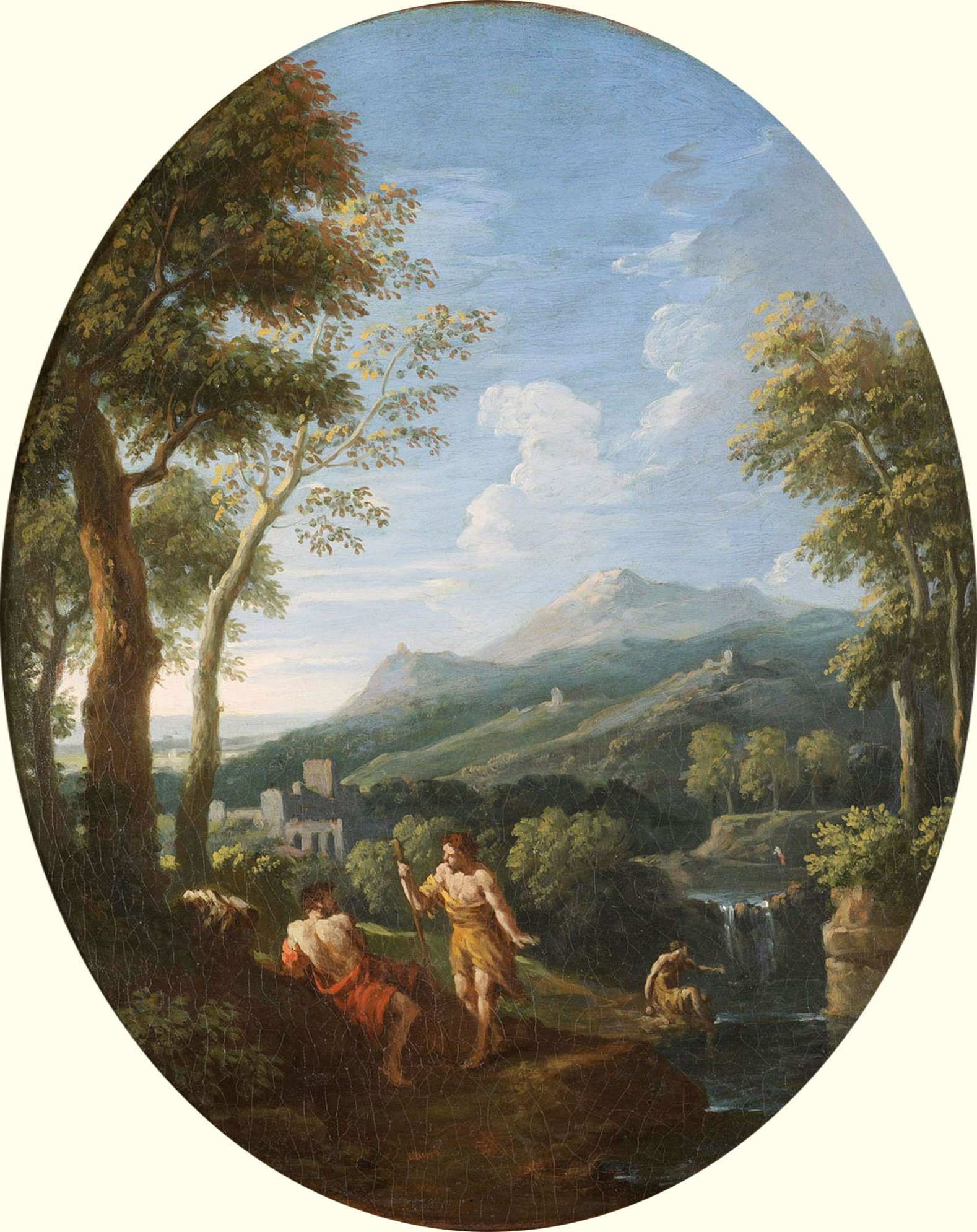 An Italianate Landscape by Jan Frans van Bloemen, called Orizzonte, oil on canvas, 46 x 37.5 cm.